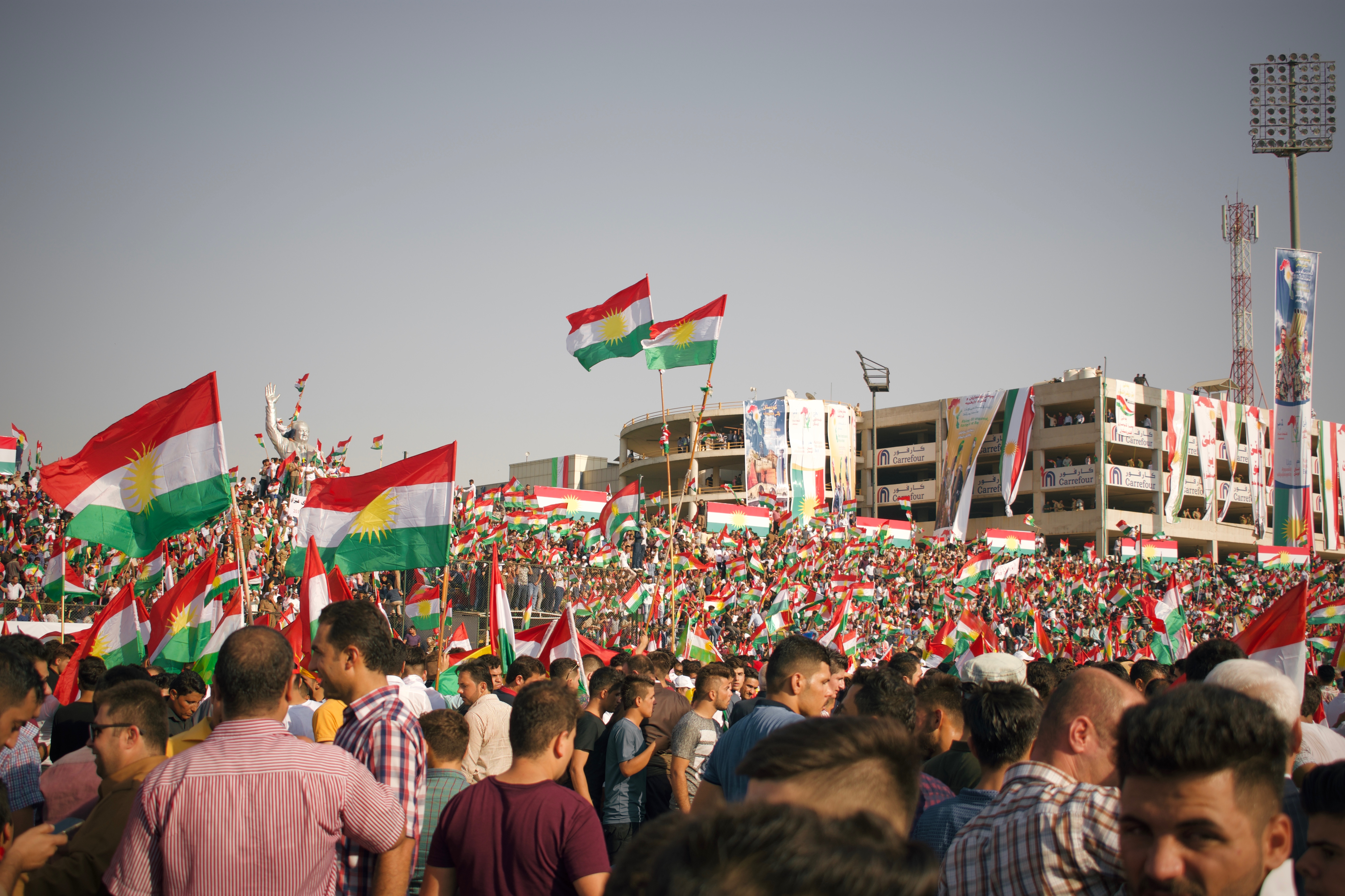 Pro-Kurdistan referendum and pro-Kurdistan independence rally at Franso Hariri Stadium, Erbil, Kurdistan Region of Iraq.